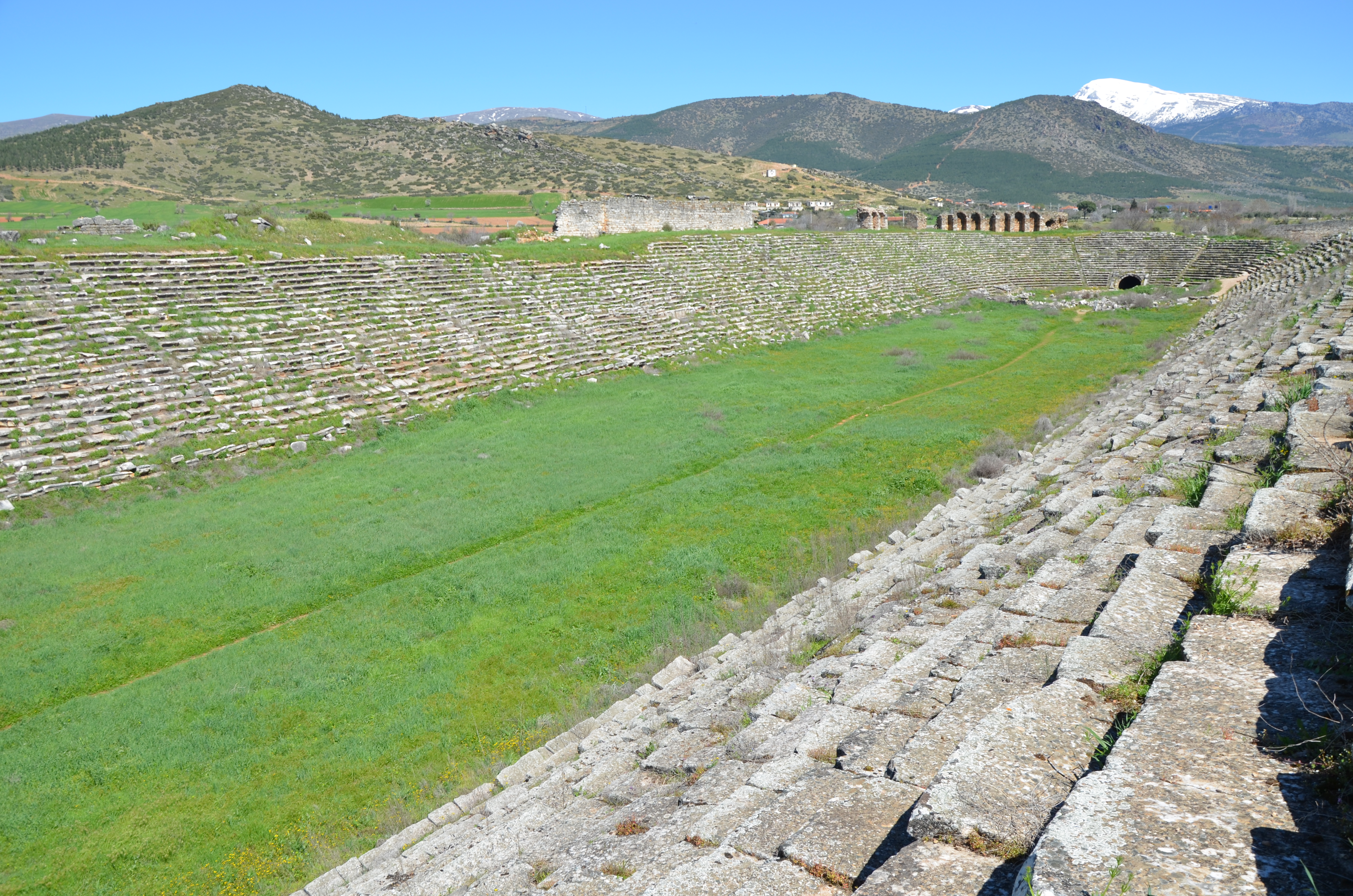 The stadium, Aphrodisias, Turkey